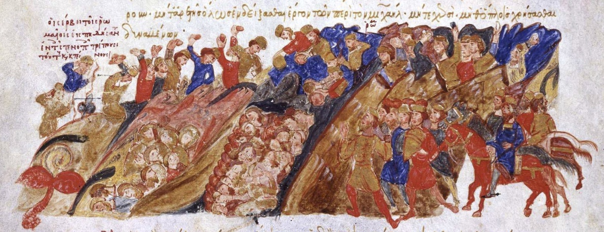 The Serbs massacre the Byzantines under the patrician Michael in the mountain passes in 1042